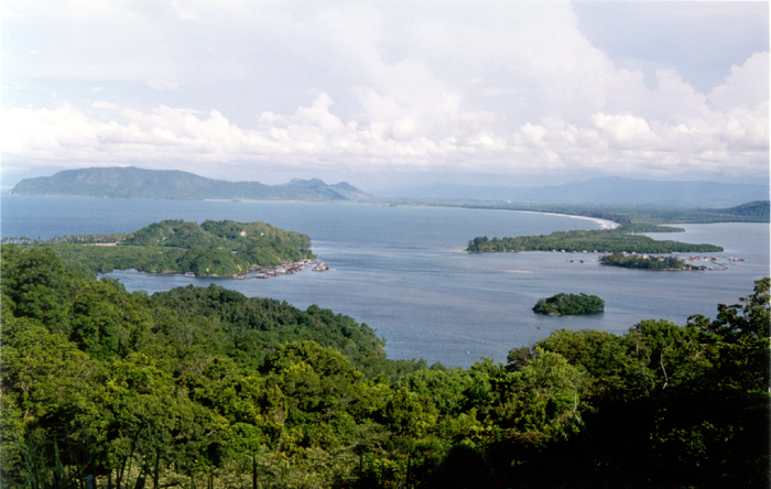 View of Yos Sudarso Bay, Indonesia